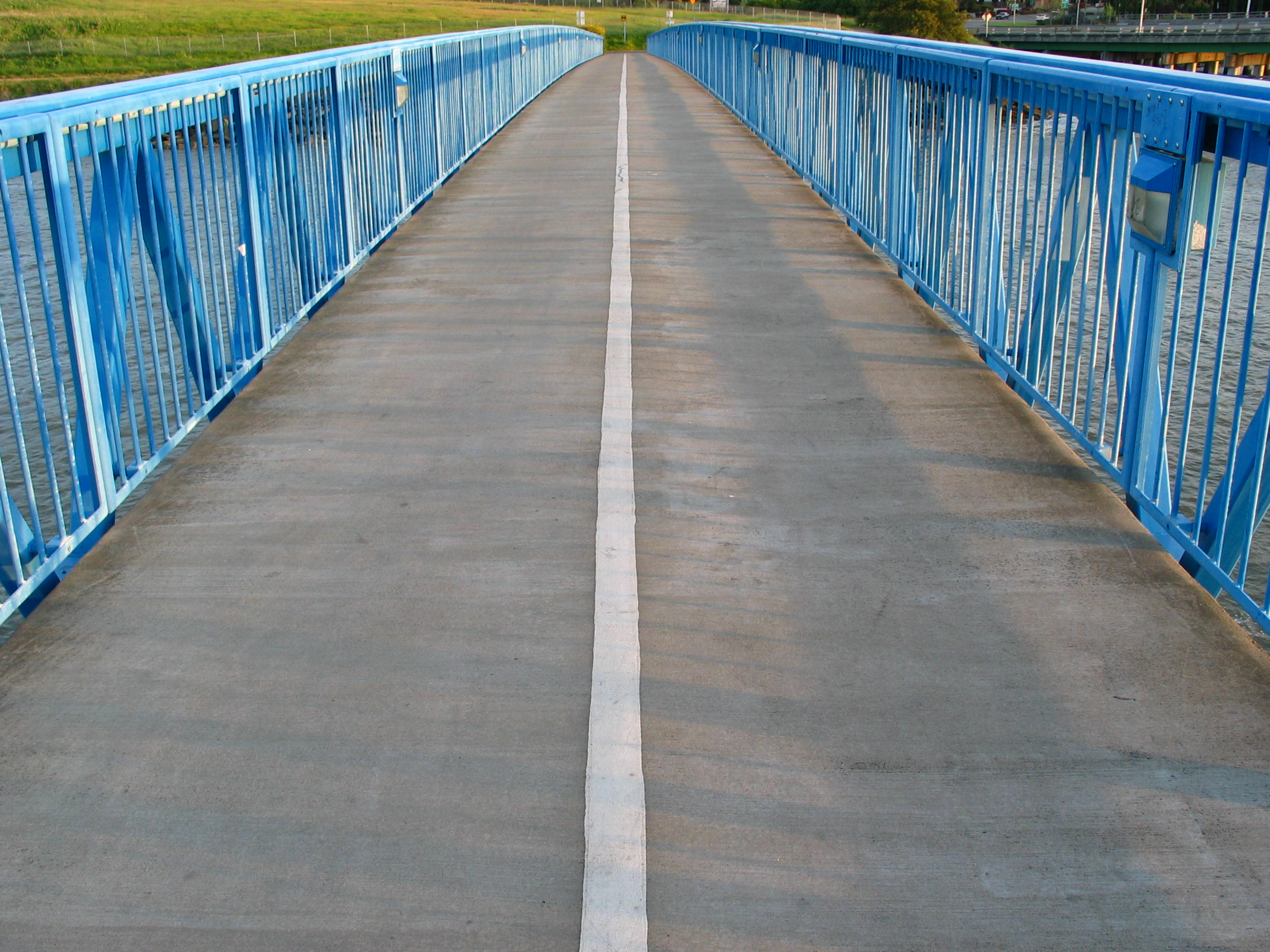 The Alameda/Bay Farm Pedestrian Draw Bridge